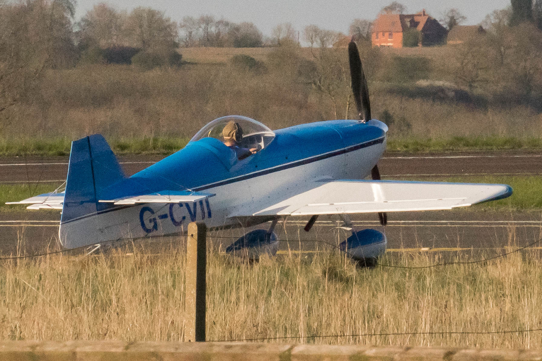 Rihn DR-107 One Design